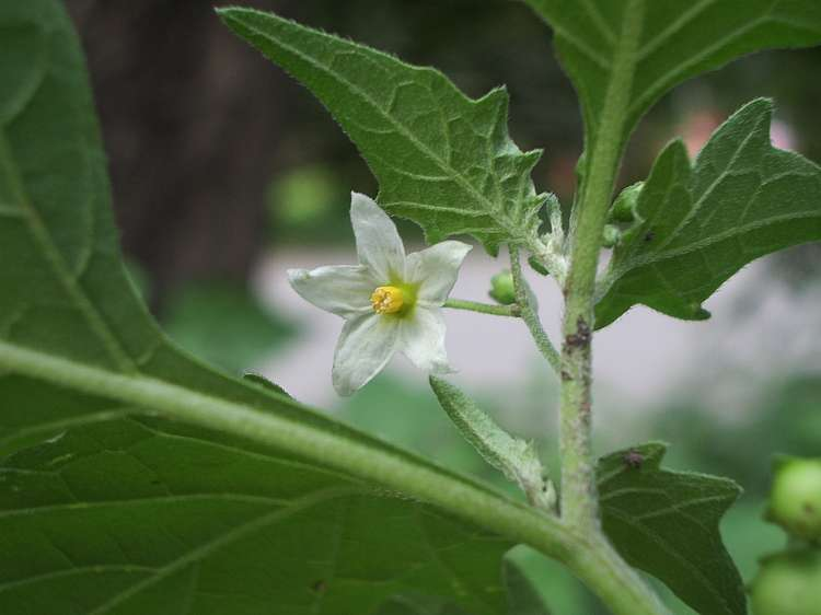 Blossom of the Black Nightshade (Solanum nigrum)